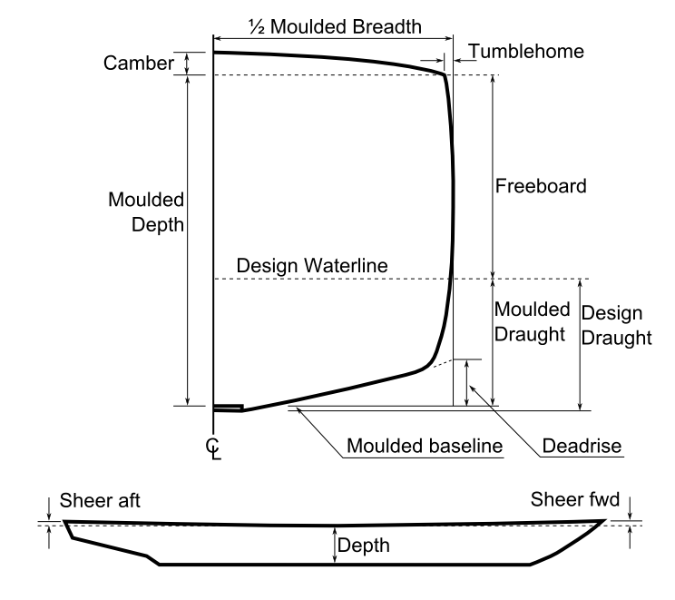 Various elements of a ship's hull shape. At the top is half a cross section, below is a longitudinal section.